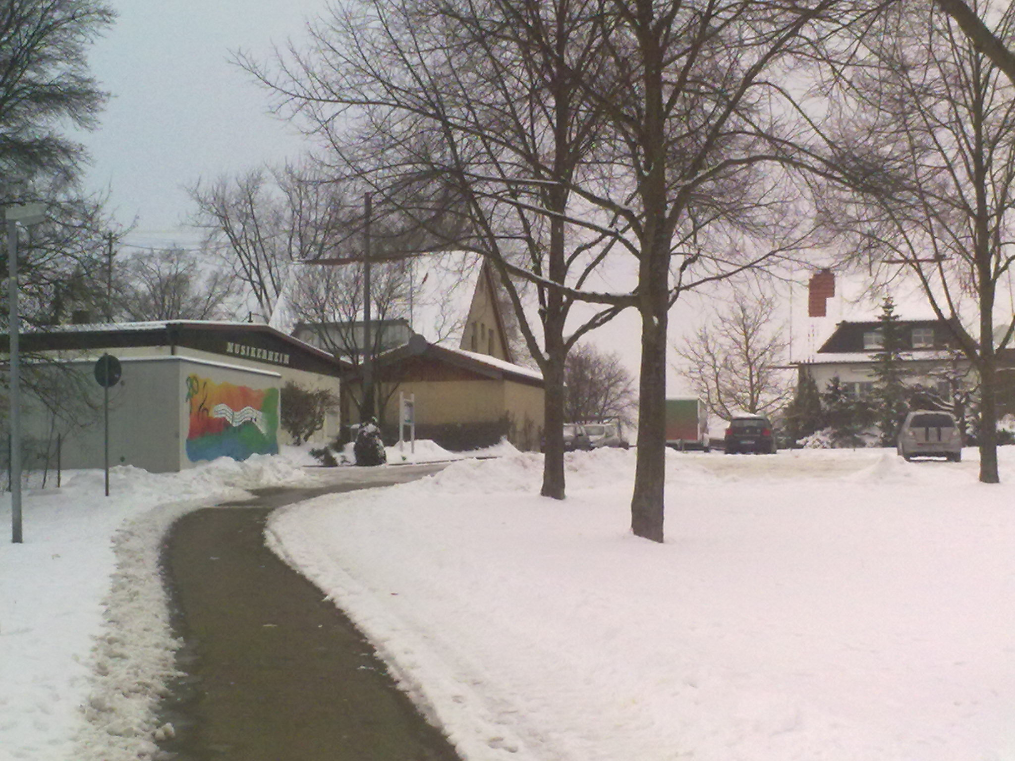 The Music Club of Fachsenfeld